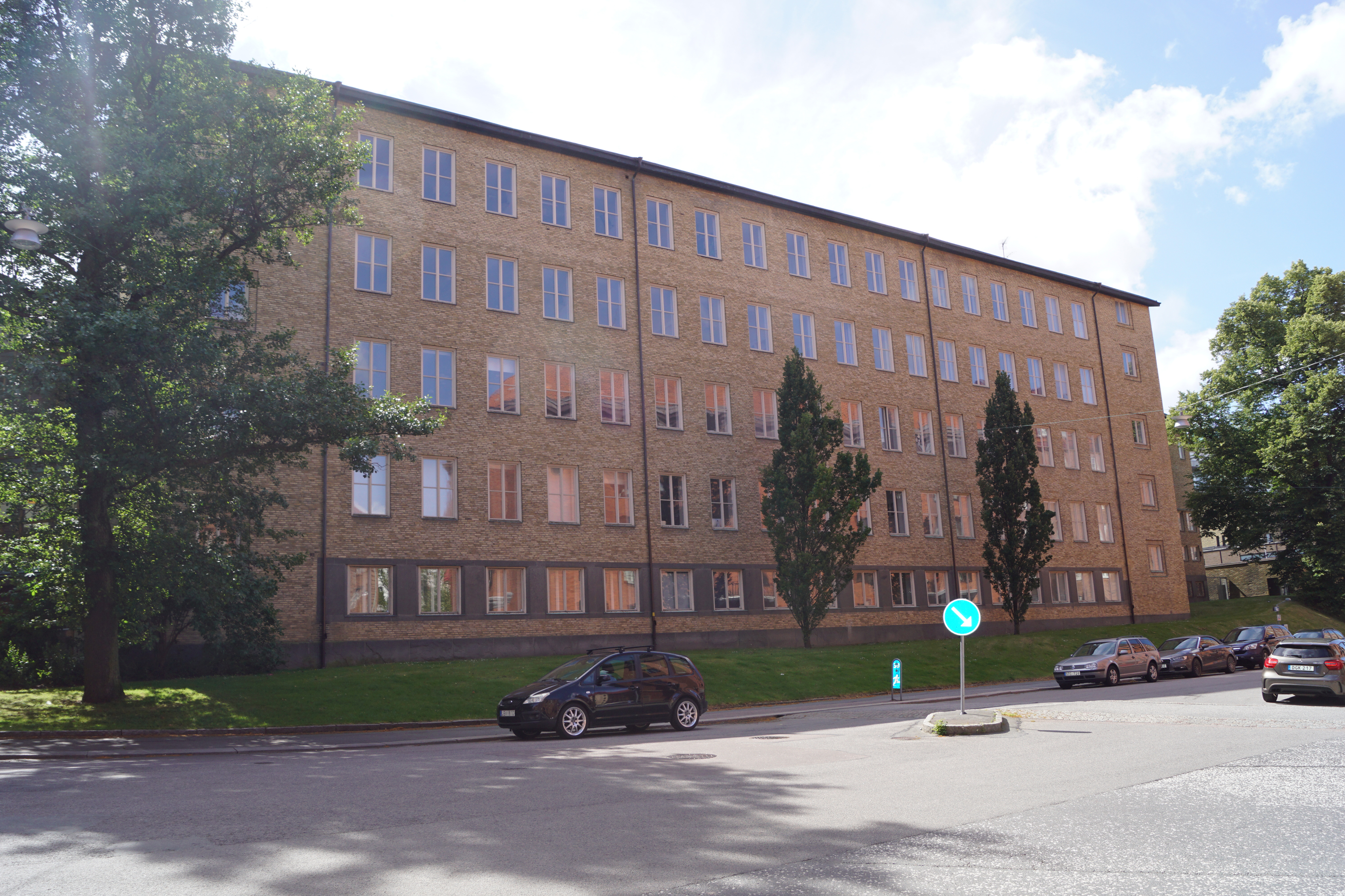 The former secondary school Kjellbergska, now the Academy of Drama and Music at University of Göteborg, Sweden.